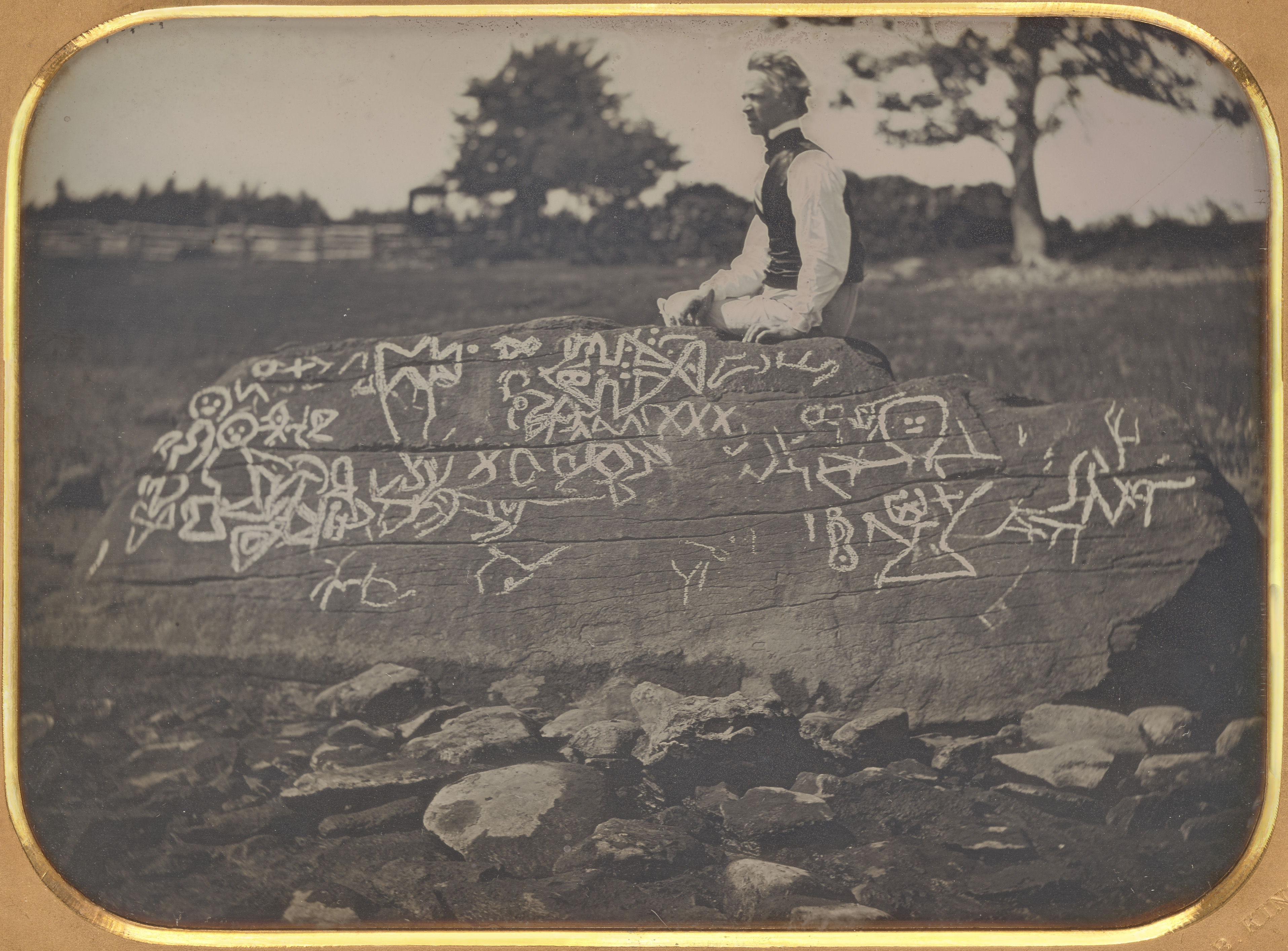 Seth Eastman at Dighton Rock; Horatio B. King (American, 1820 - 1889); July 7, 1853; Daguerreotype; 8.9× 12.1 cm (3 1/2 × 4 3/4 in.); 84.XT.182